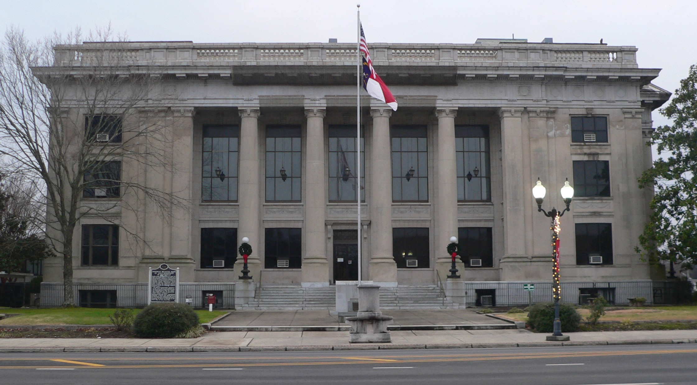 Johnston County courthouse, located at southeast corner of 2nd and Market Streets in Smithfield, North Carolina; seen from the northeast, across Market.